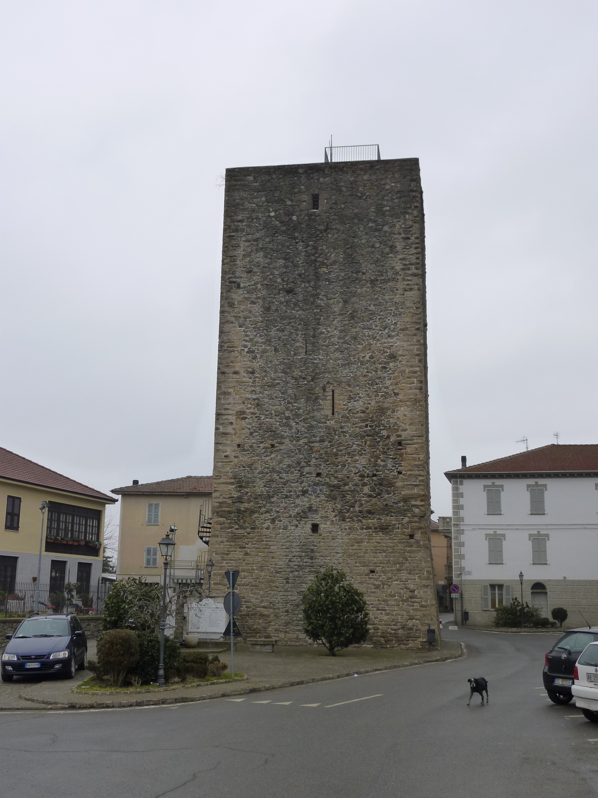 Turm in Cartosio